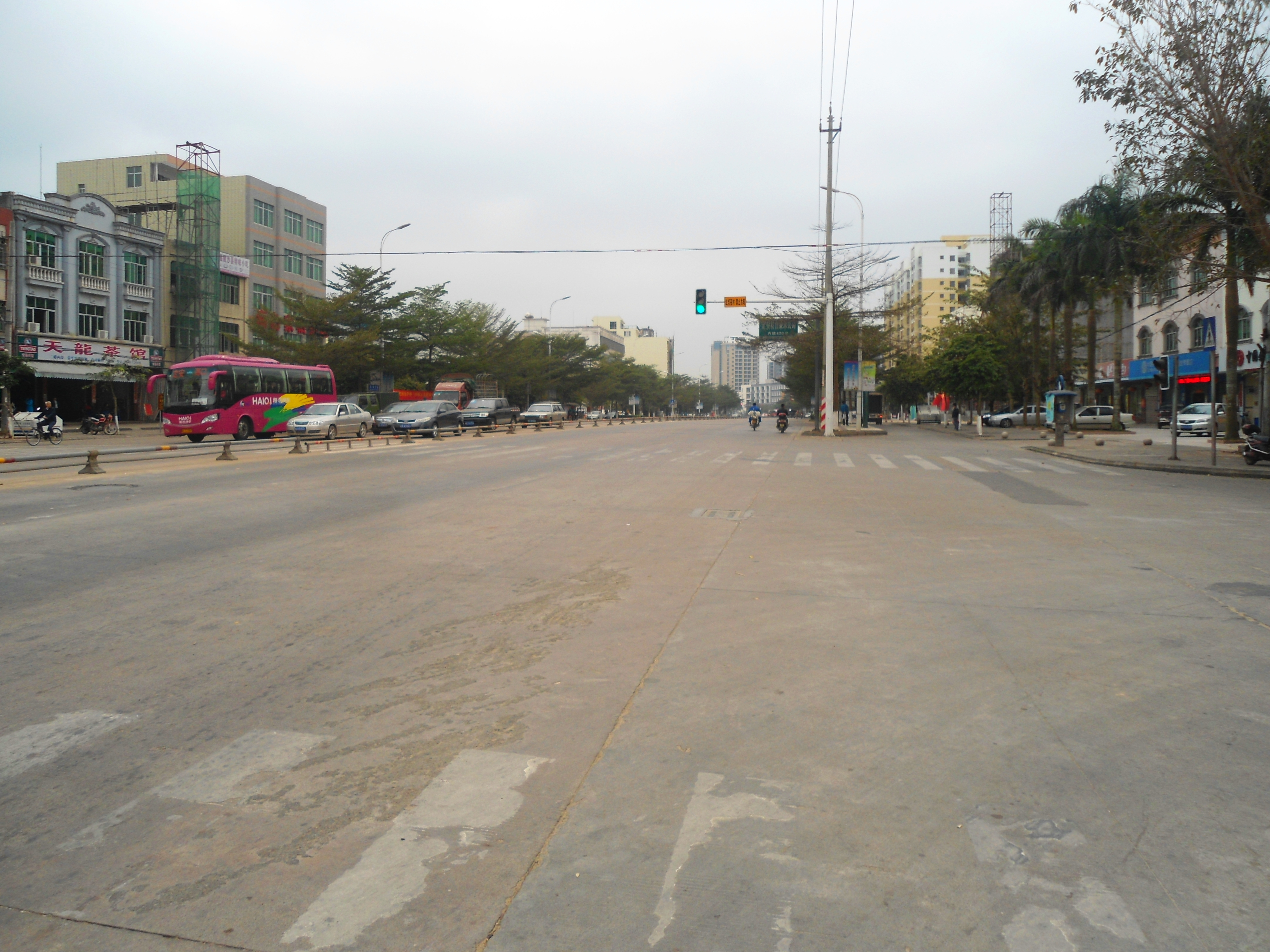 Greater Dingcheng, Ding'an, Hainan, China